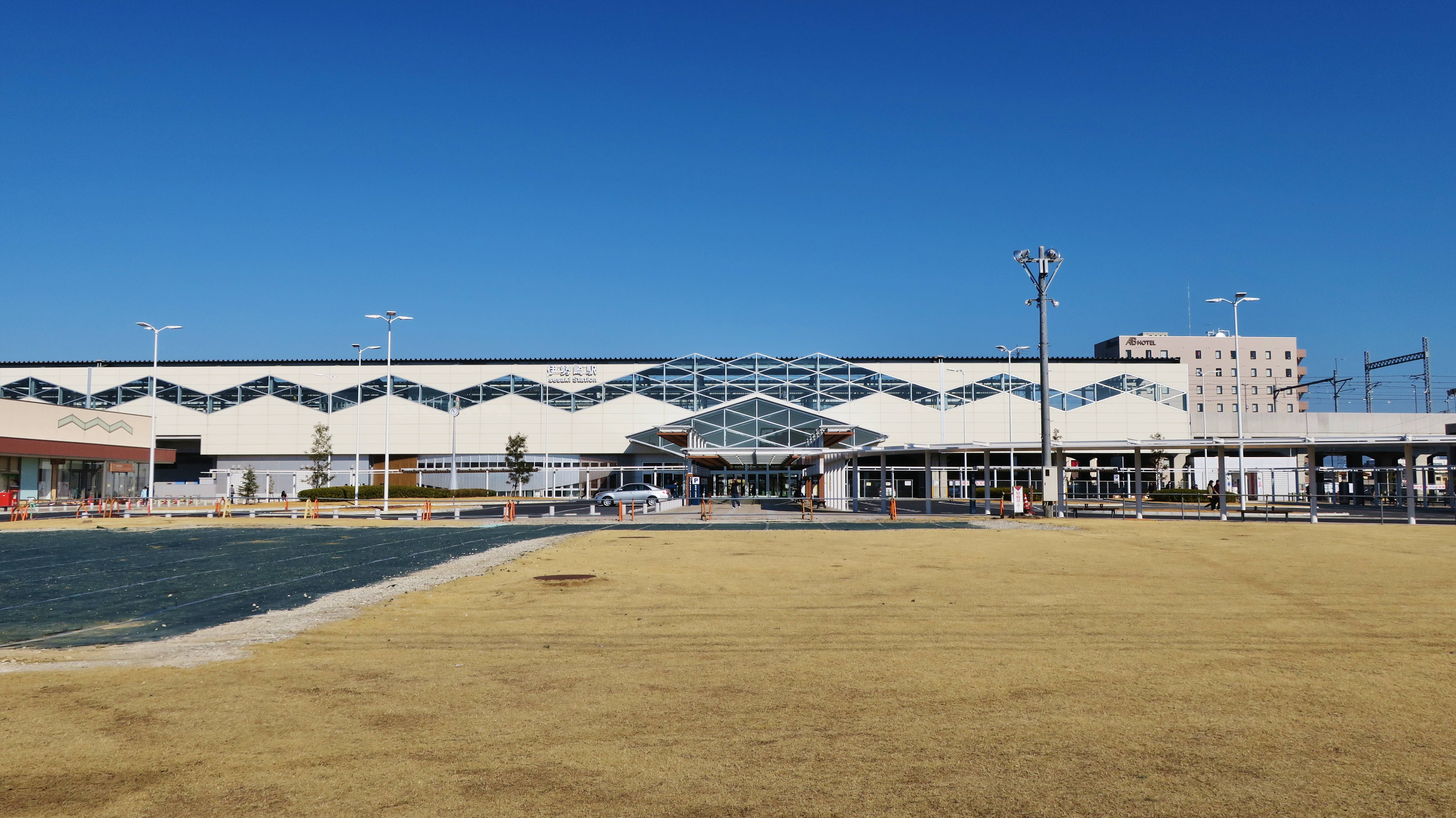 Isesaki Station.